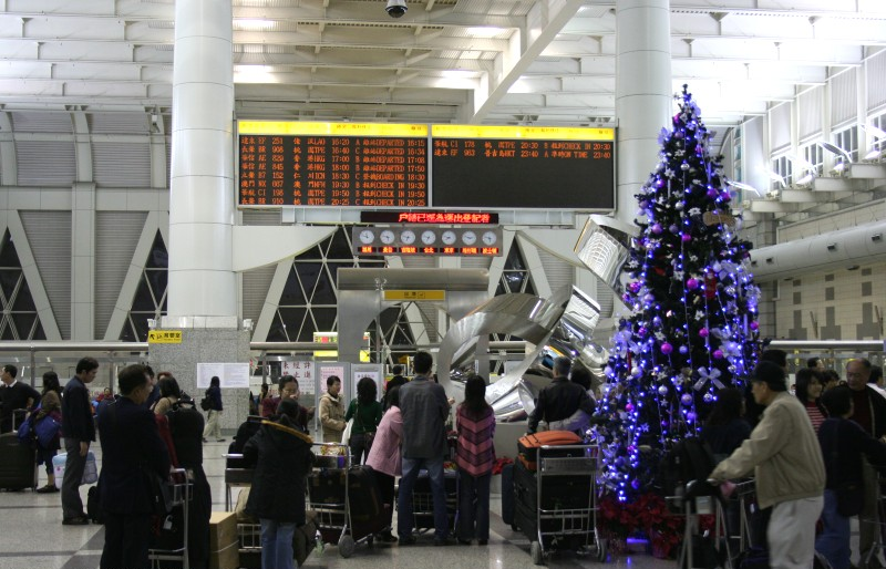 Departure hall and Christmas tree of Kaohsiung International Airport.